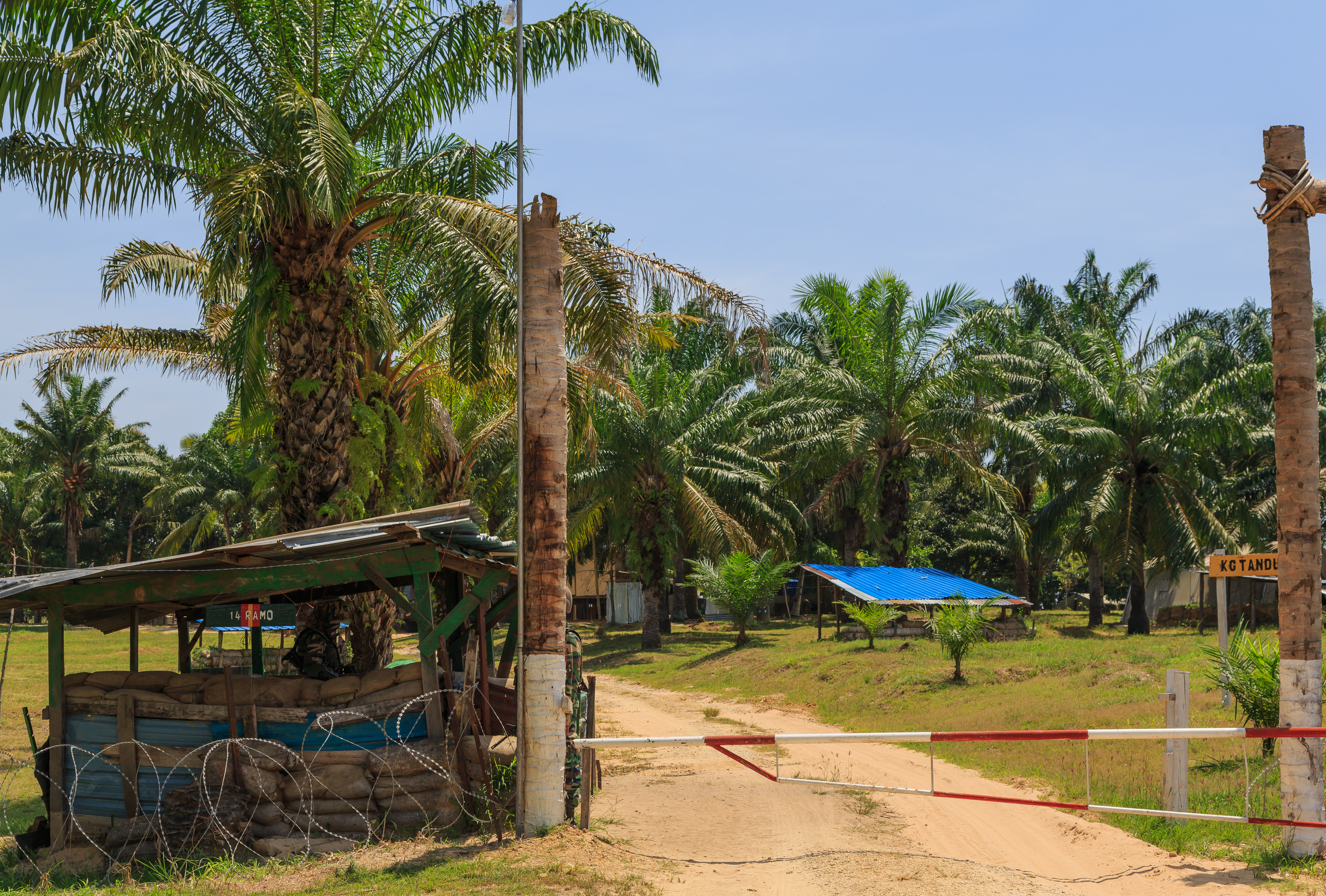 Tanduo, Sabah: Village entrance after setting up the military camp